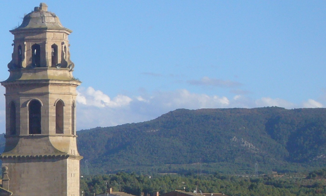 Mountain Punta del Curull (Serra de la Llena, Catalonia), seen from the l'Albi castle